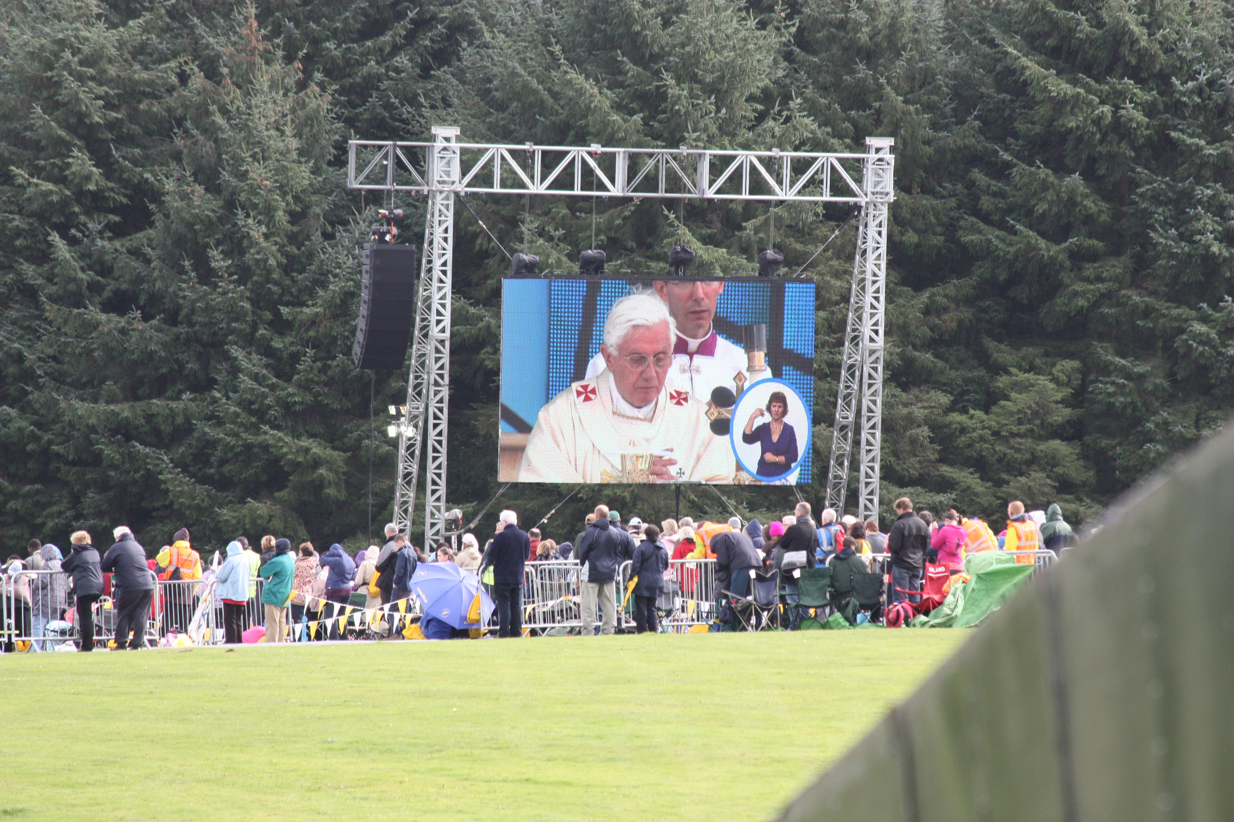 One of the large screens around Cofton Park transmitting images of the beatification ceremony of Cardinal John Henry Newman.